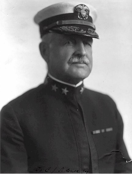 Photo #: NH 49353, Rear Admiral Caspar F. Goodrich, USN portrait photograph by Harris & Ewing, Washington, D.C., taken circa 1904-1909. He has inscribed this print to C.J. Petherick, Esq. U.S. Naval Historical Center Photograph Removed caption read: Photo # NH 49353 Rear Admiral Caspar F. Goodrich, USN